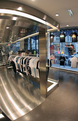 the new design of colette after renovation